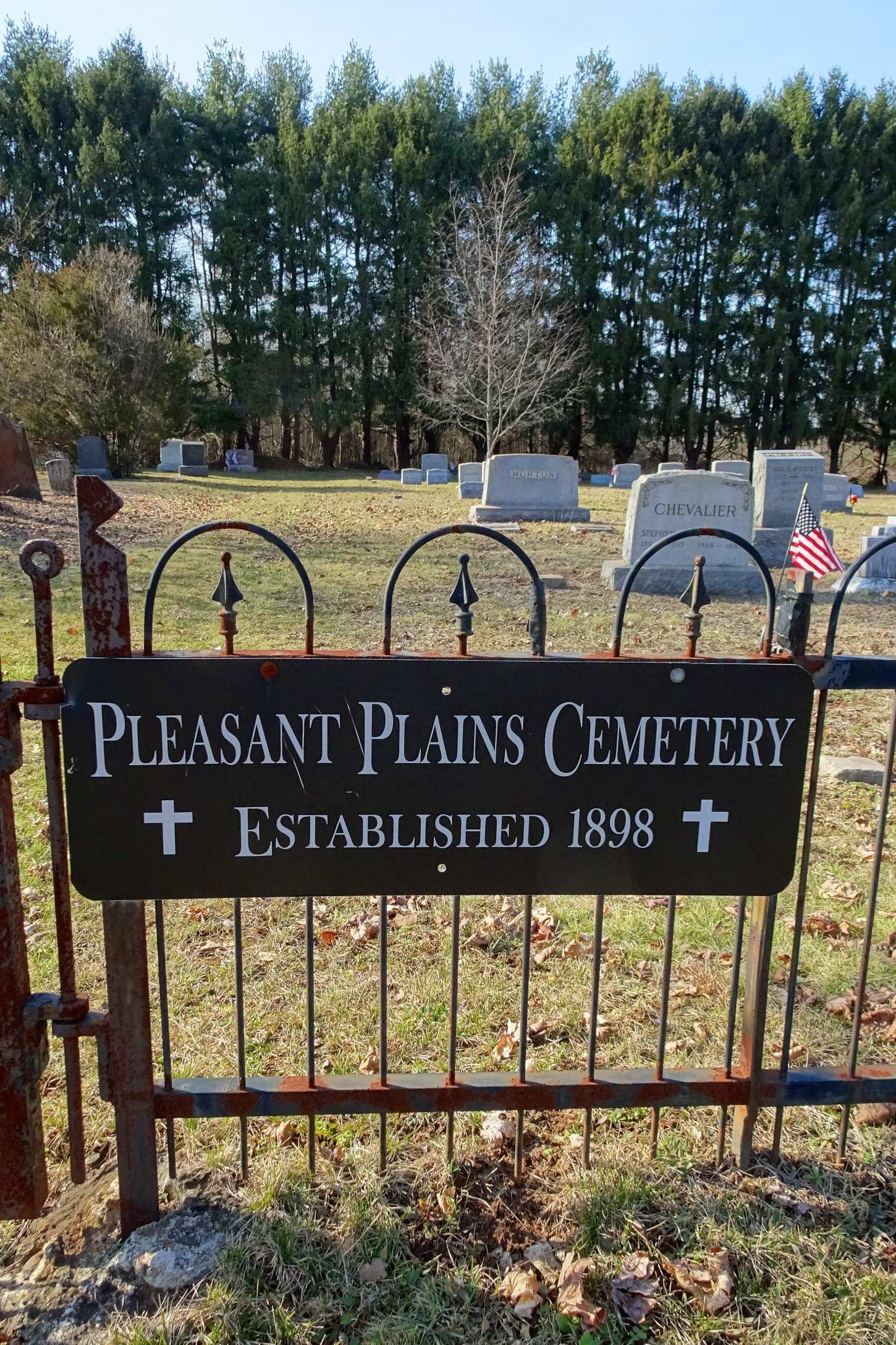 Pleasant Plains Cemetery on South Middlebush Road in Franklin Township, Somerset County, New Jersey.